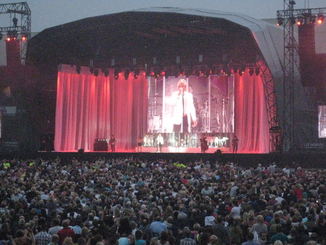 The Rod Stewart concert in progress at Home Park, Plymouth, July 2009.